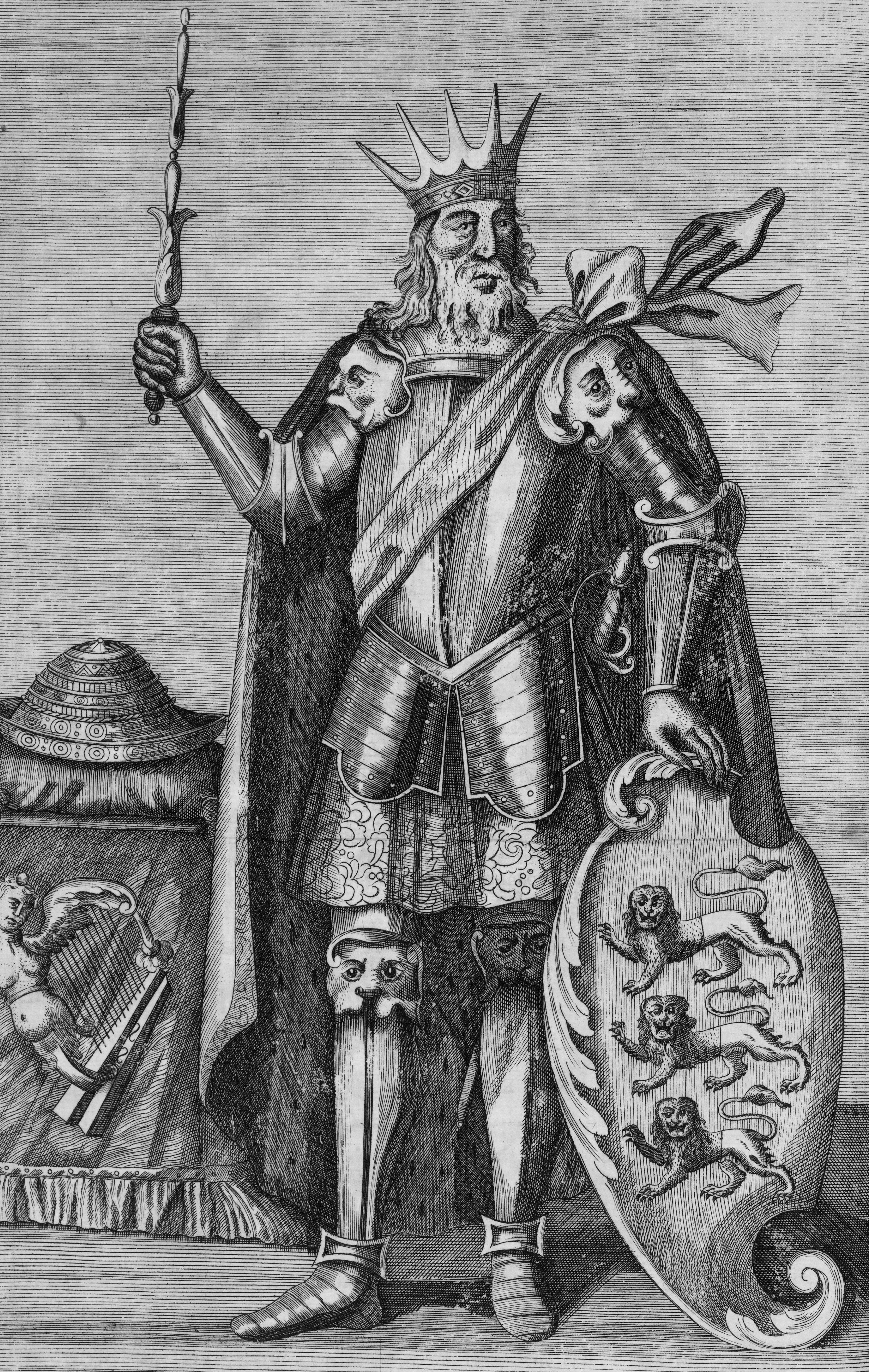 An eighteenth-century illustration of Brian Bóruma mac Cennétig (died 1014).